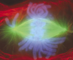 Mitotic spindle in animal cell